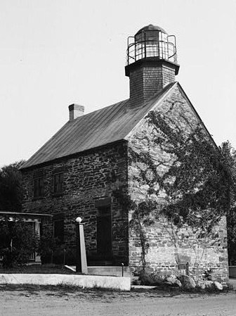 Salmon River Lighthouse, Lake Ontario, Port Ontario vicinity, (Oswego County, New York) Selkirk Lighthouse Object location43° 34′ 28″ N, 76° 12′ 07″ W